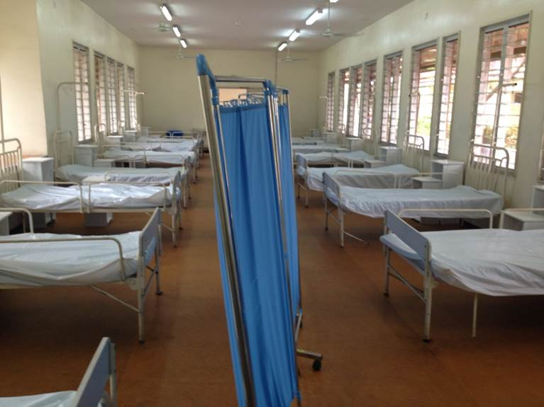 The new Ebola isolation ward in Lagos, Nigeria provides more space and better treatment for patients. For more information on Ebola and what CDC is doing, please visit